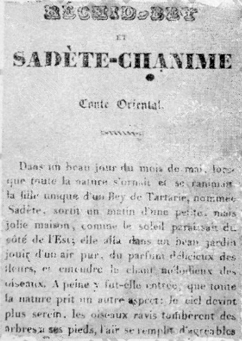 Reside bey ve sadet xanim